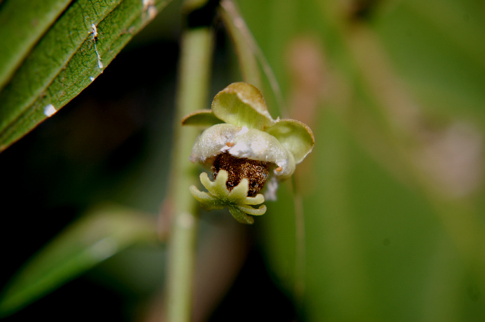 Hydnocarpus pentandra from Flacourtiaceae. It is endemic to the Western Ghats and while common in the southern regions, it is not commonly seen in cultivation.